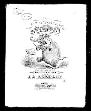 Jumbo sheet music, date unknown